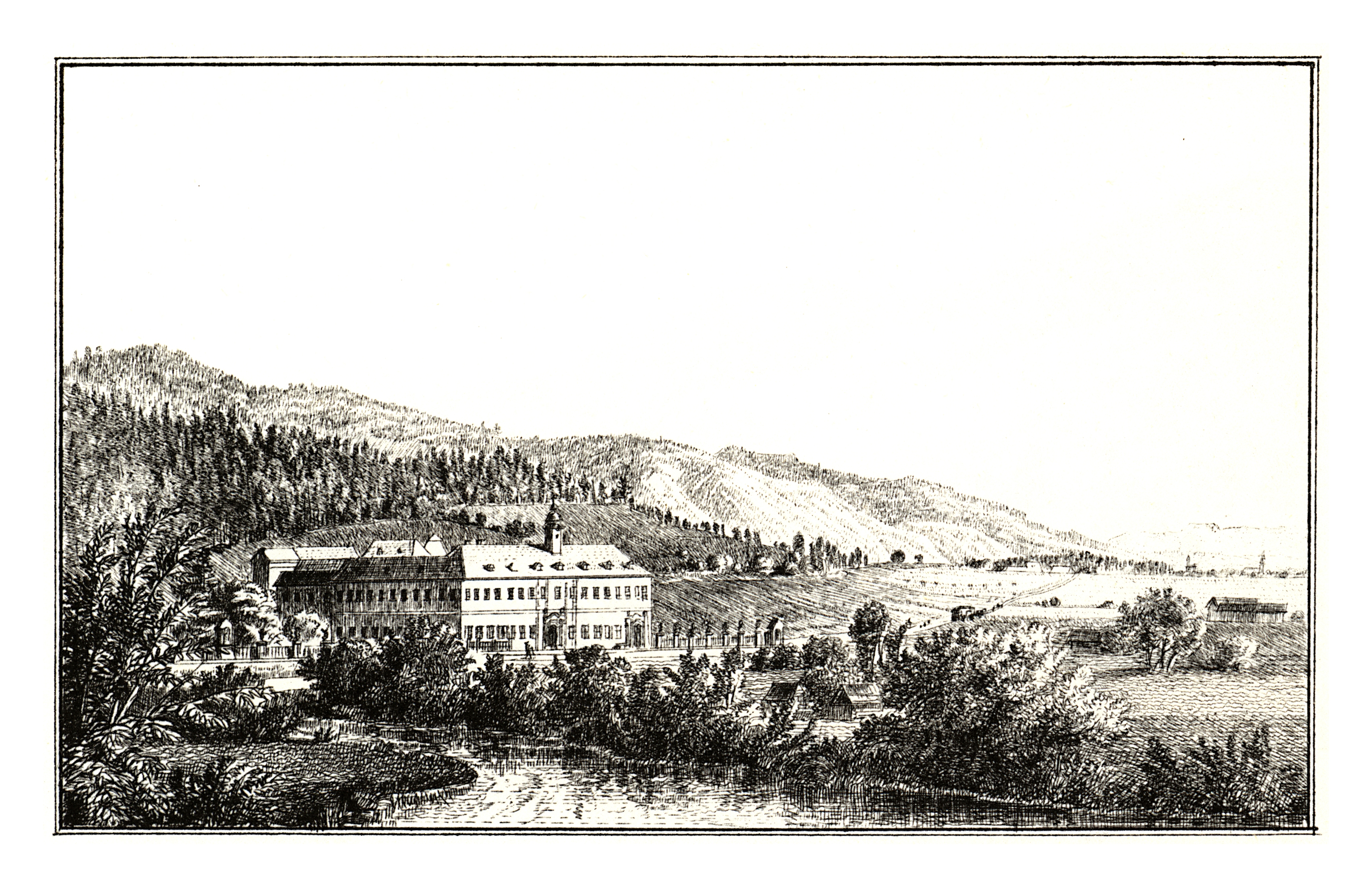 J. F. Kaiser - lithographirte Ansichten der Steyermärkischen Städte, Märkte und Schlösser, Graz 1824-1833 Joseph Franz Kaiser (1786–1859) Alternative names J. F. KaiserDescriptionAustrian printer and editorDate of birth/death 11 March 1786 19 September 1859Location of birth/death Graz (Styria) GrazAuthority control : Q1499963 VIAF: 30629353 ISNI: 0000 0000 3083 0153 LCCN: n87141671 GND: 129880159 NLP: A24960305 WorldCat creator QS:P170,Q1499963 . Scanprojekt Community Projektbudget 2012 This scan or this PDF-file was created within the GLAM-project Bookscanning, supported by Wikimedia Germany and Wikimedia Austria as a part of the community-project to capture books, documents and pictures which are not eligible to copyright or for which the copyright has expired. This document describes or depicts an object which is located in Austria today. Send requests for uncompressed scans to Hubertl. This work is in the public domain in its country of origin and other countries and areas where the copyright term is the author's life plus 100 years or less. You must also include a United States public domain tag to indicate why this work is in the public domain in the United States. This file has been identified as being free of known restrictions under copyright law, including all related and neighboring rights.